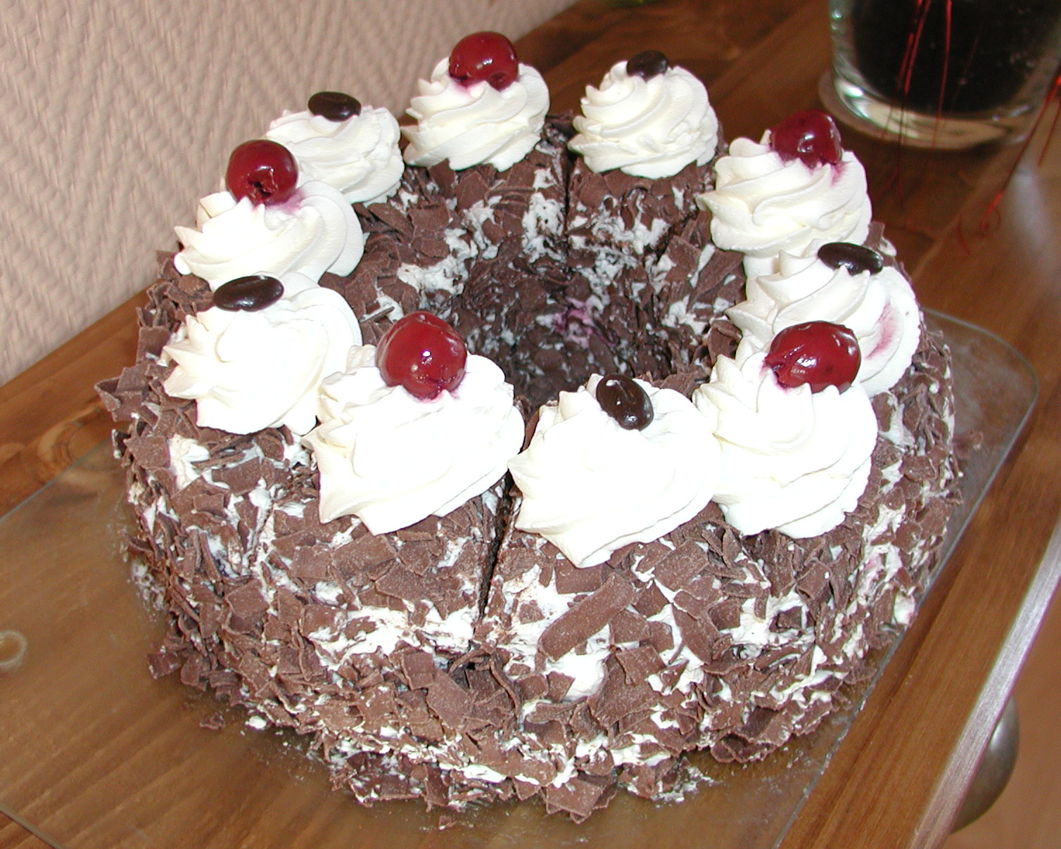 Black Forest gateau is the English name for the southern Schwarzwälder Kirschtorte (literally "Black Forest cherry cake")